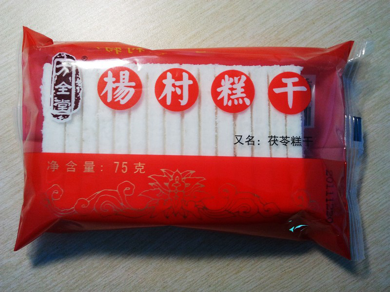 Yangcun cake（Yangcun Gaogan）, its production method has been included of the Intangible Cultural Heritage in Tianjin .